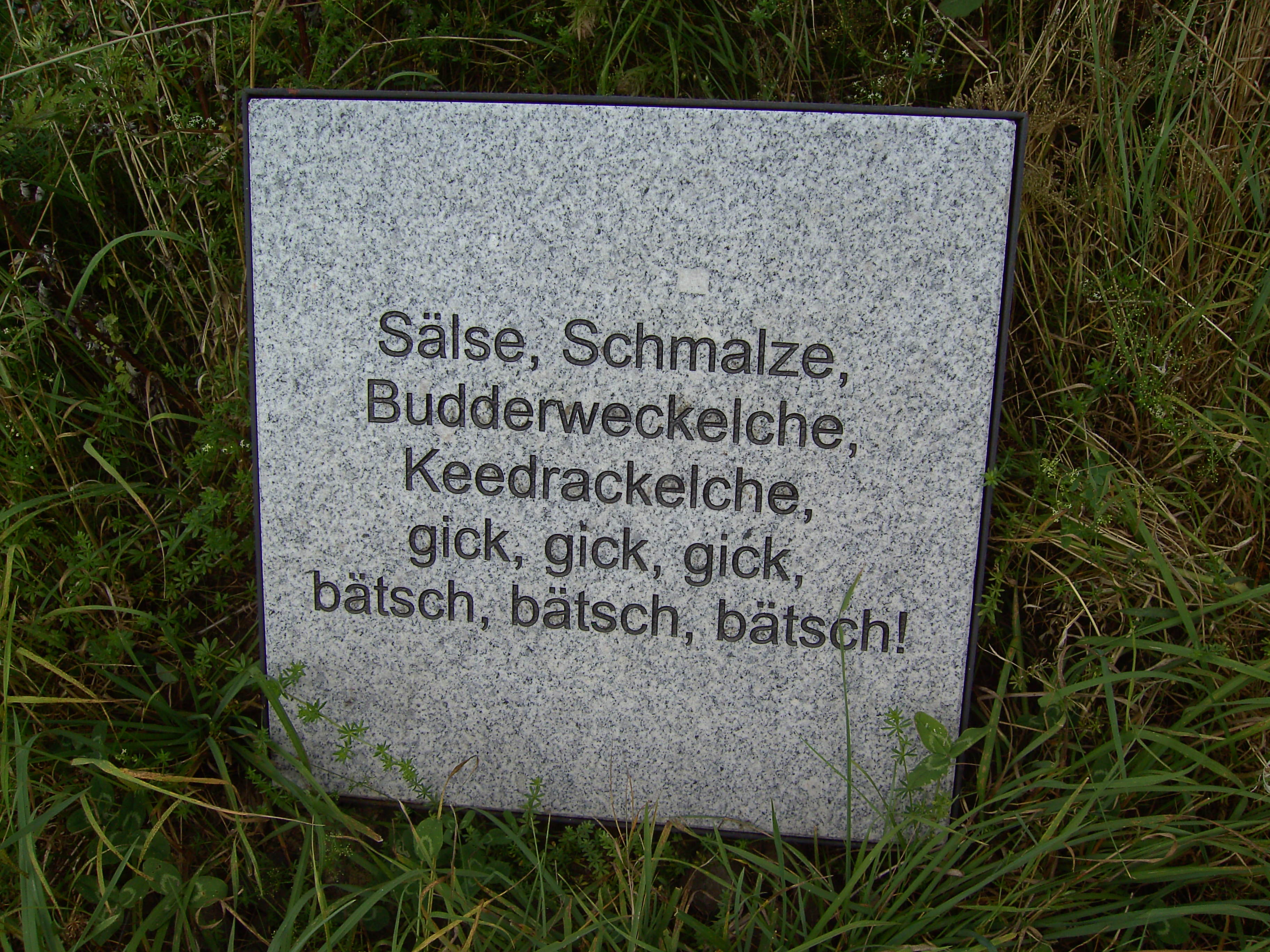 After the project of Jürgen Blum "open book along the cycle path skittles (Kegelspielradweg)" a plaque in the "Rhön Platt" (dialect) near the village Leibolz